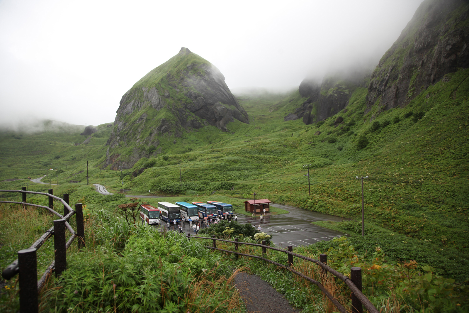 momo rocks at Rebun island